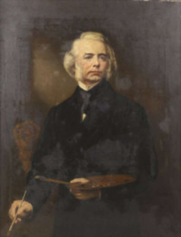 Portrait of Stephen Catterson Smith the Elder (1806-1872) by his son Stephen Catterson Smith the Younger (1849-1912). Oil on canvas, 86 x 112cm (34 x 44).